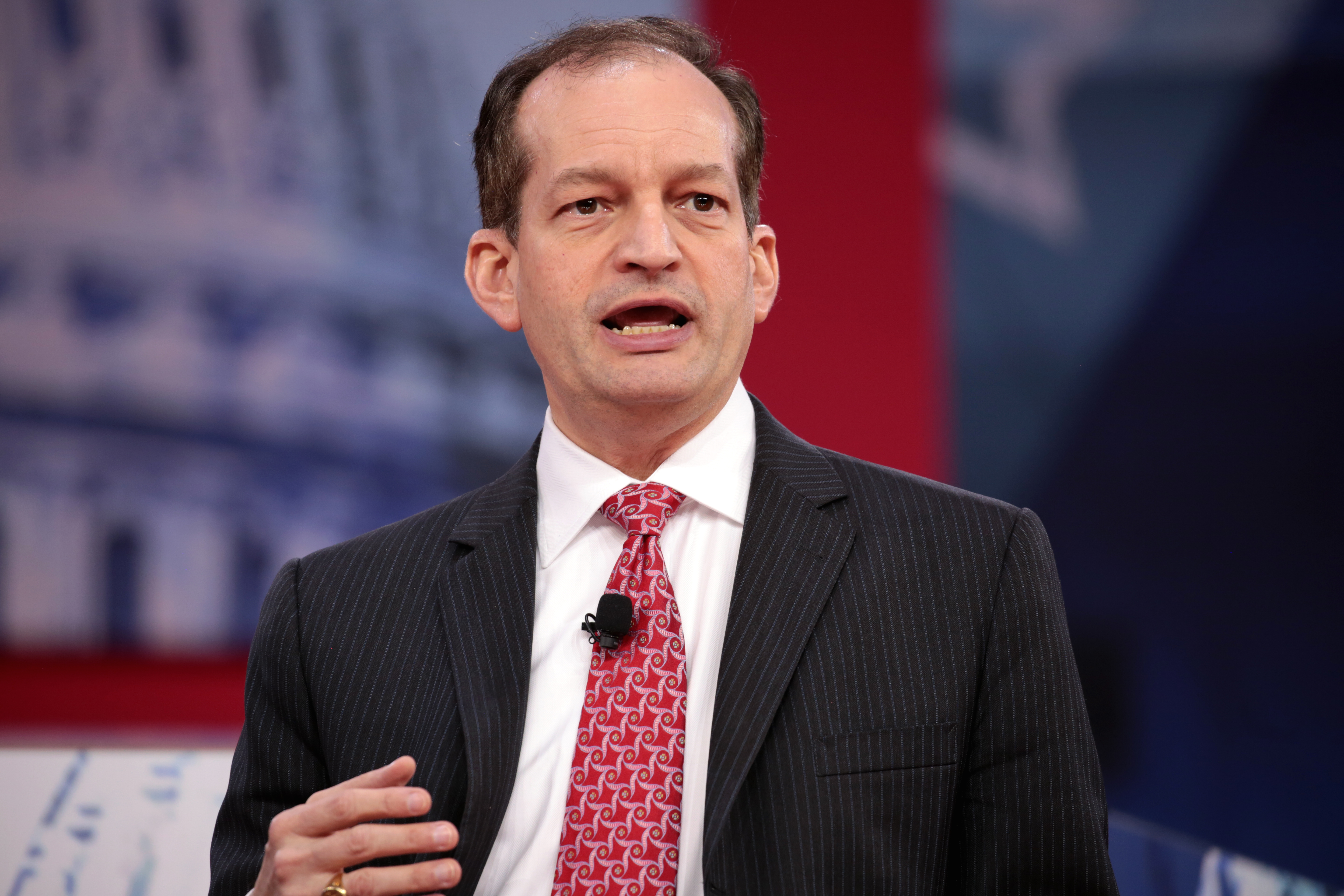 U.S. Secretary of Labor Alexander Acosta speaking at the 2018 Conservative Political Action Conference (CPAC) in National Harbor, Maryland.